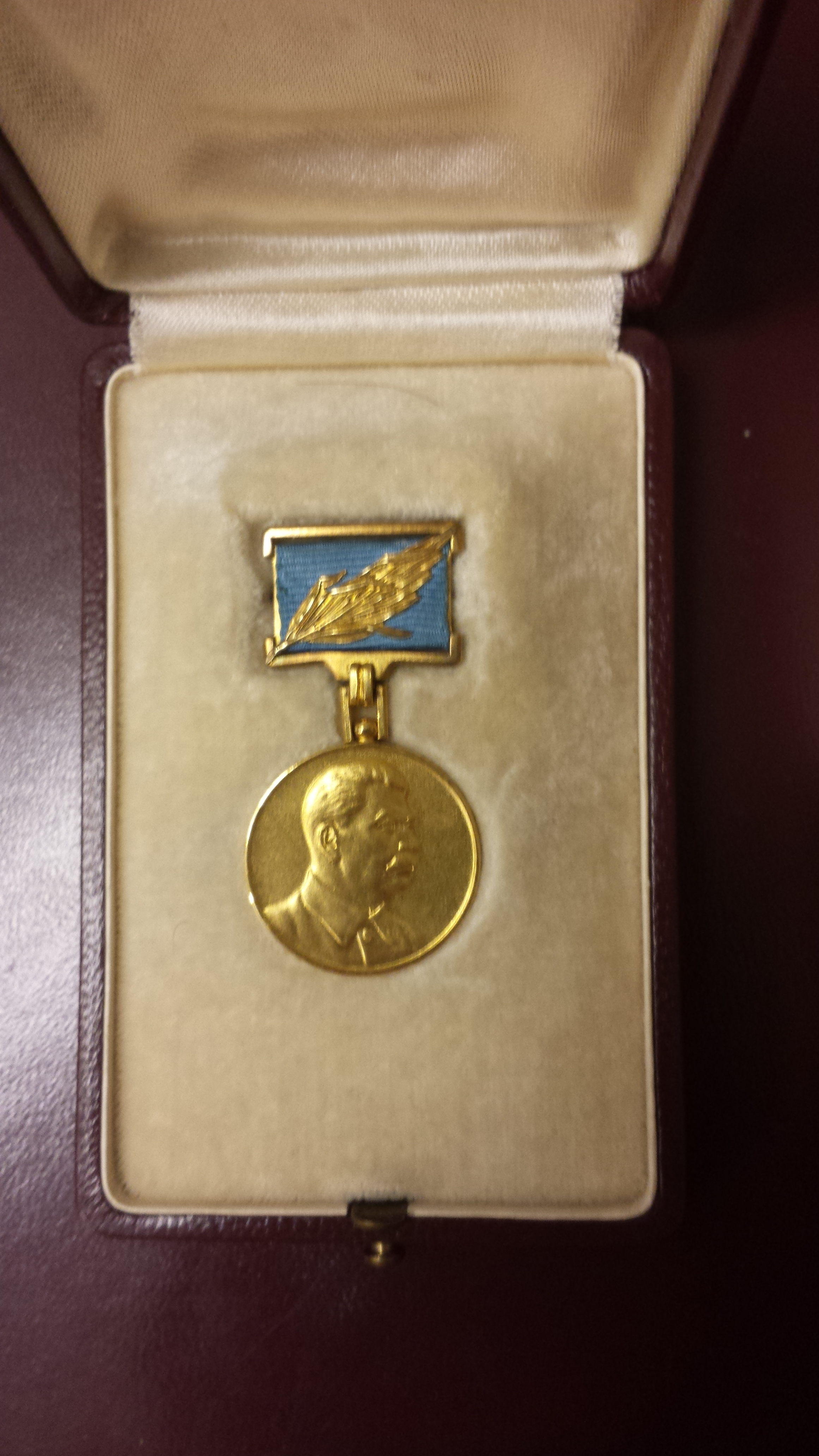 Andrea Andreens Stalin Peace Prize medal. Awarded in 1953.